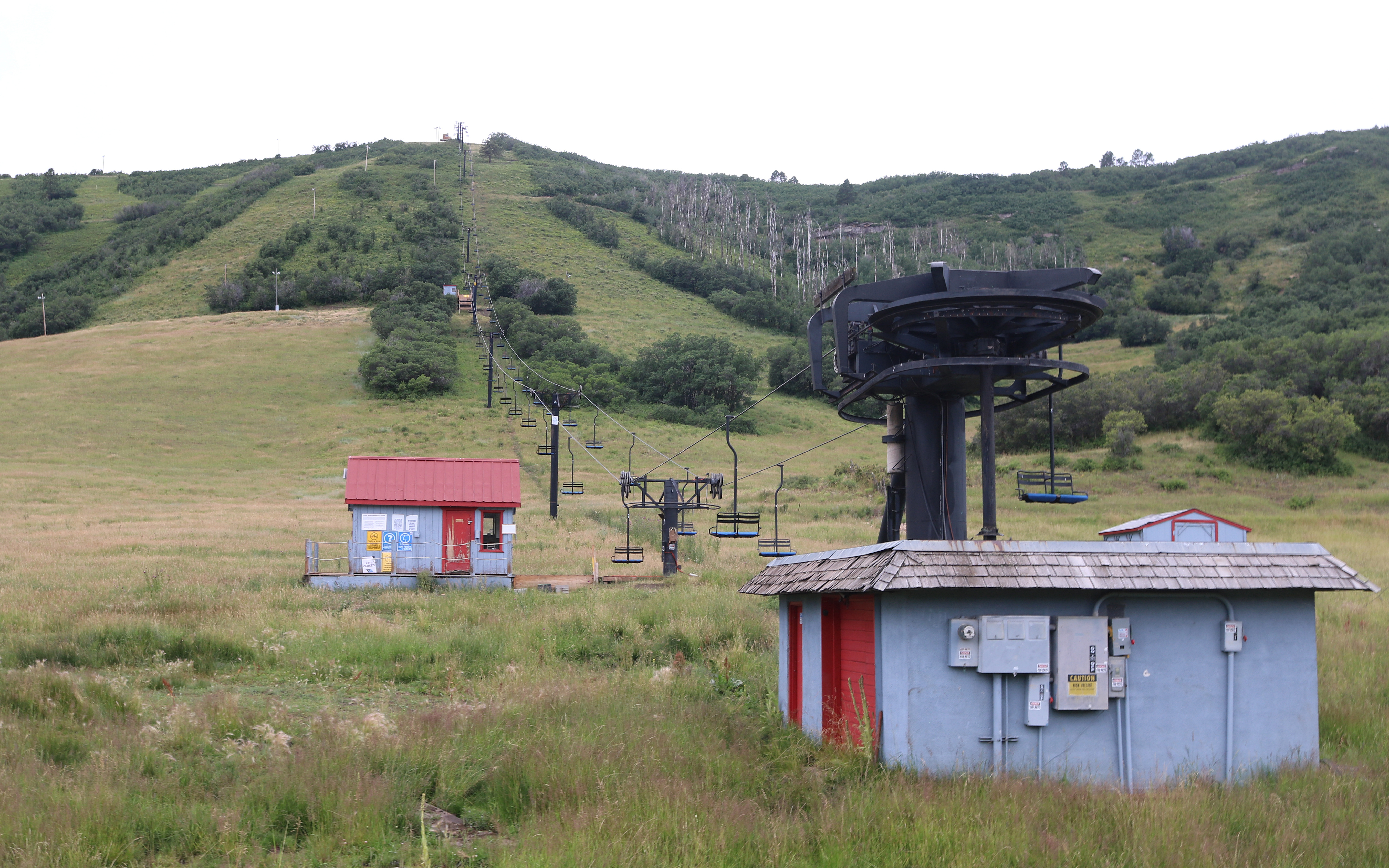 Hesperus Ski Area, located at 9848 Highway 160 in Hesperus, Colorado.